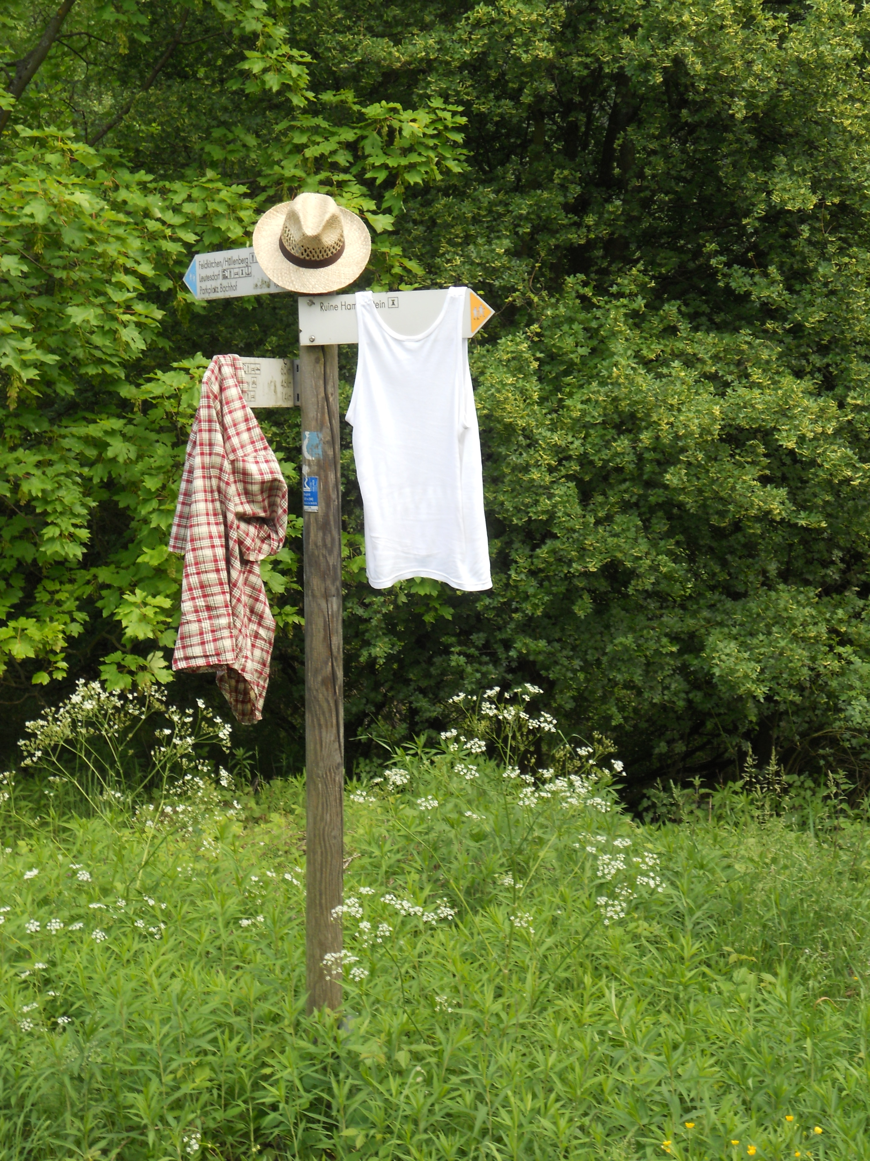 Scene near Burg Hammerstein, illustrating the arduous ascend to the 10th fortress.